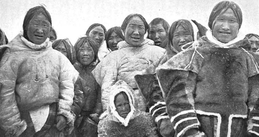 Eskimo(Inuit) women and one Eskimo(Inuit) man